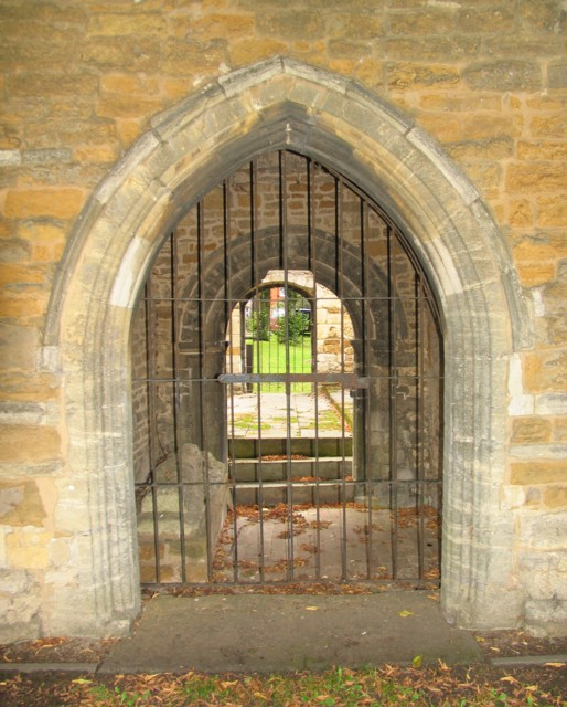 Doorways of the ruined church of St Mary in Arden, Great Bowden, Leicestershire